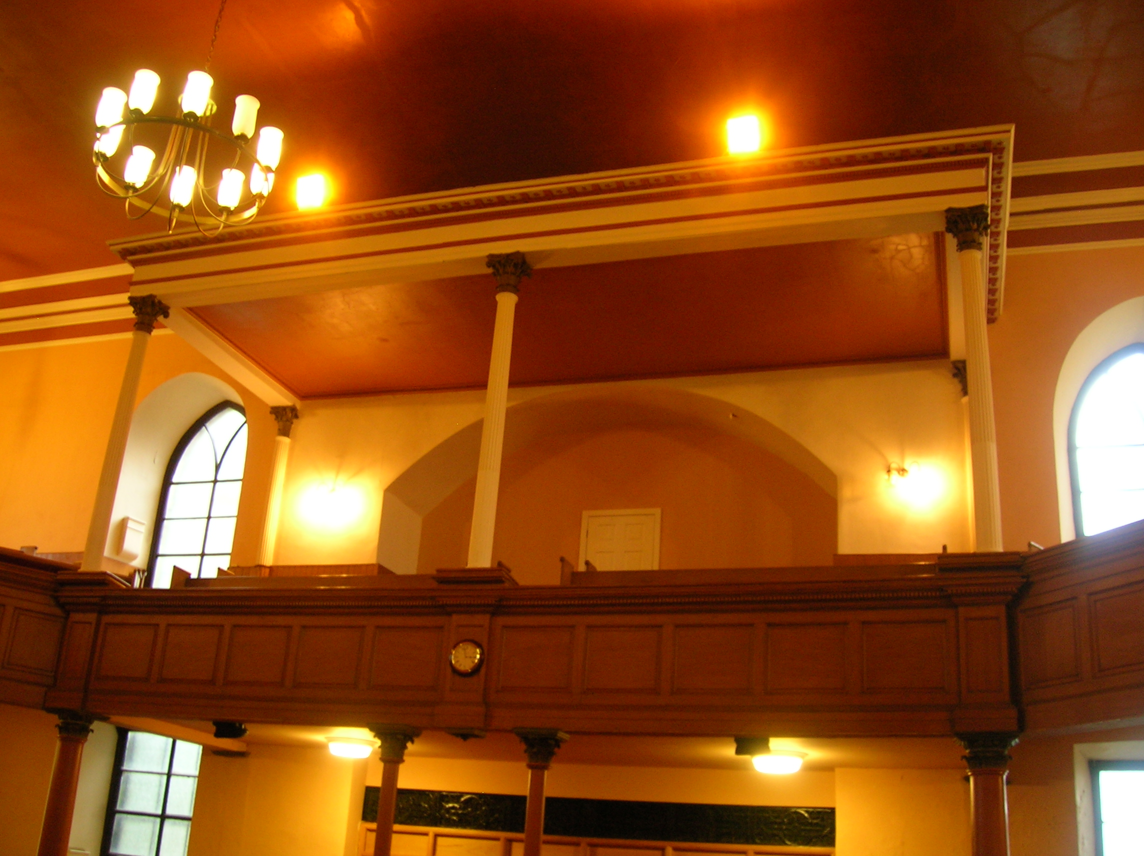 The Eglinton Loft, Kilwinning Abbey church, North Ayrshire, Scoland.